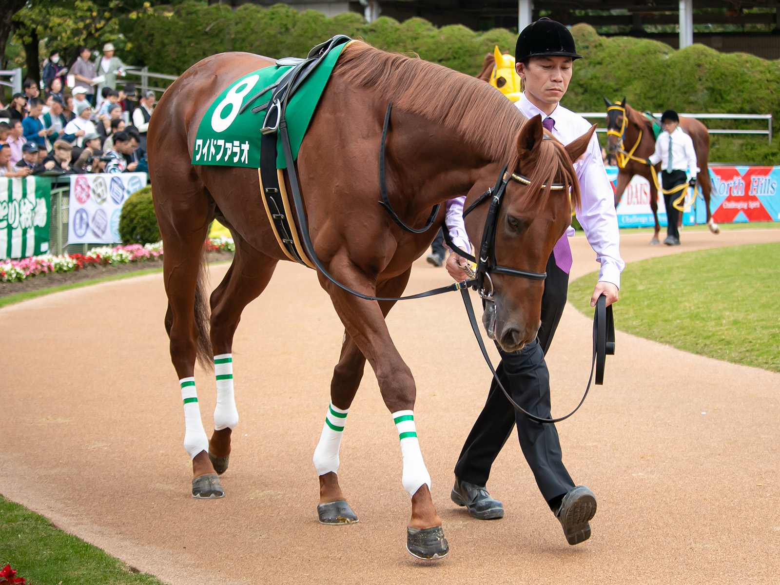 Wide Pharaoh(JPN), Racehorse of Japan.